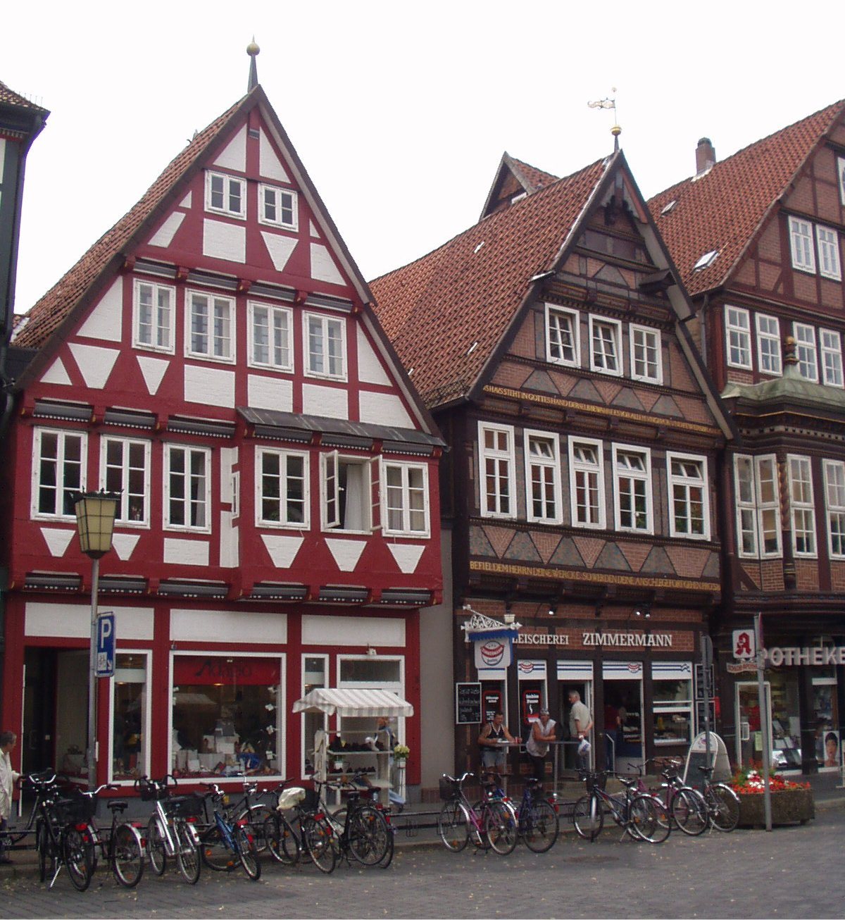 More houses in Celle, taken by me on vacation